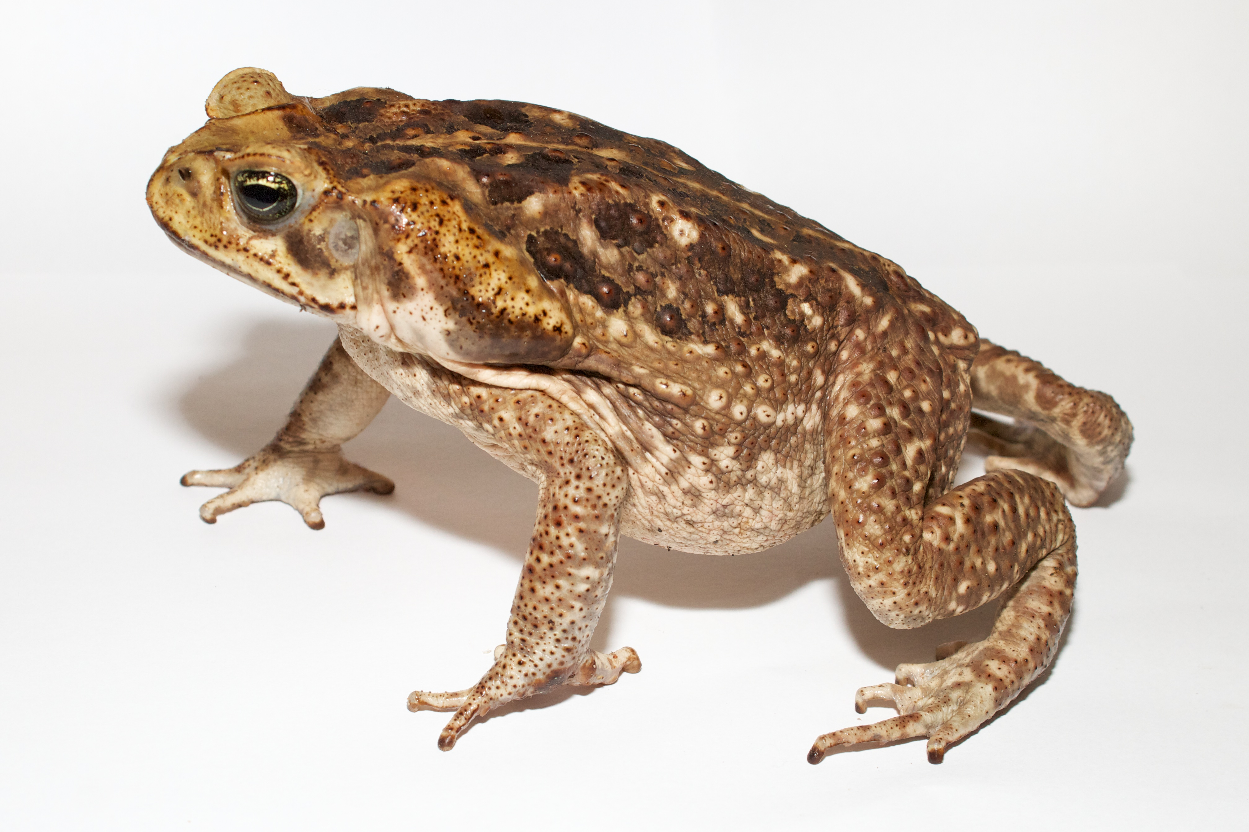 Adult cane toad